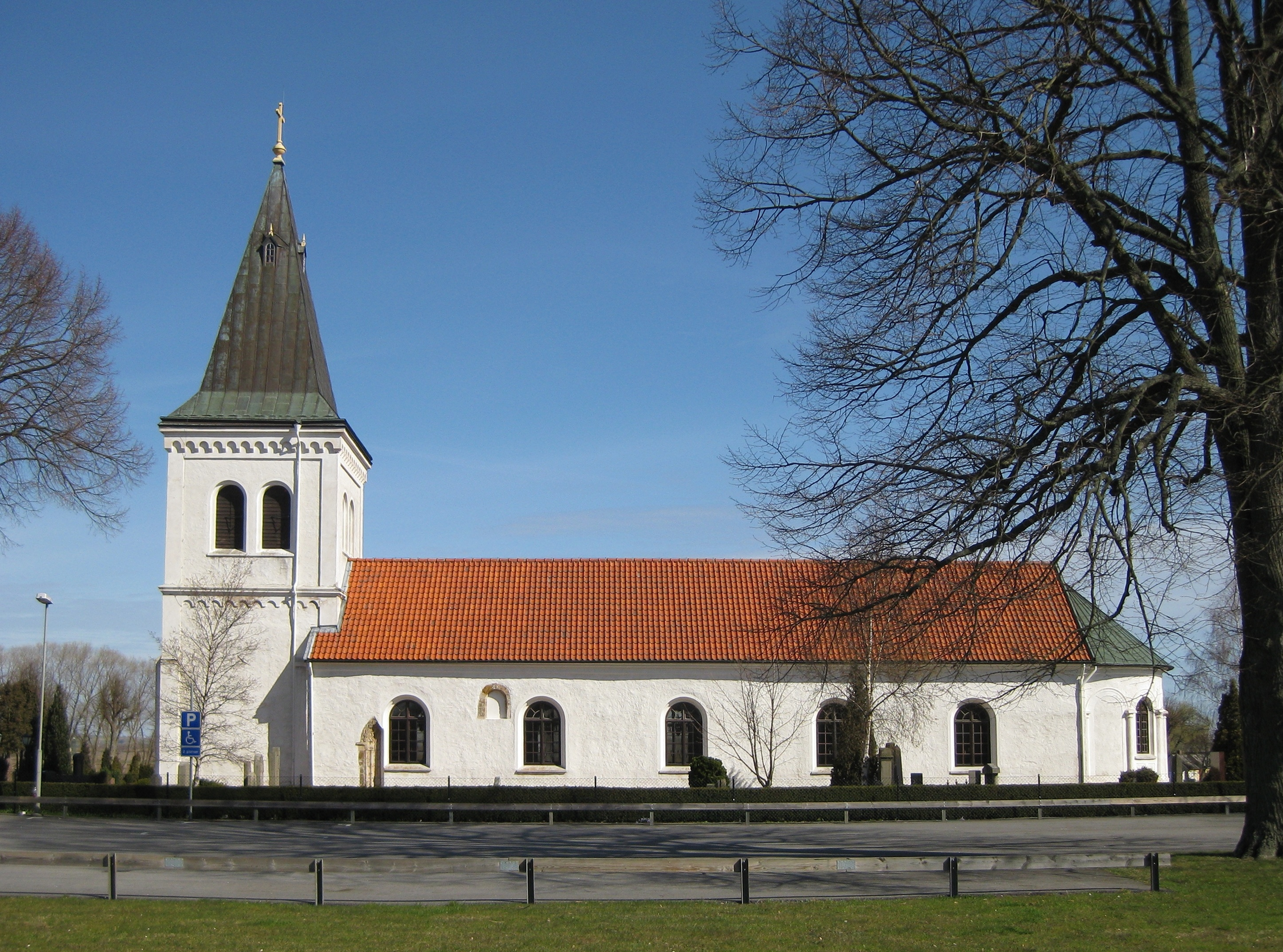 Saxtorp church in Skåne, Sweden